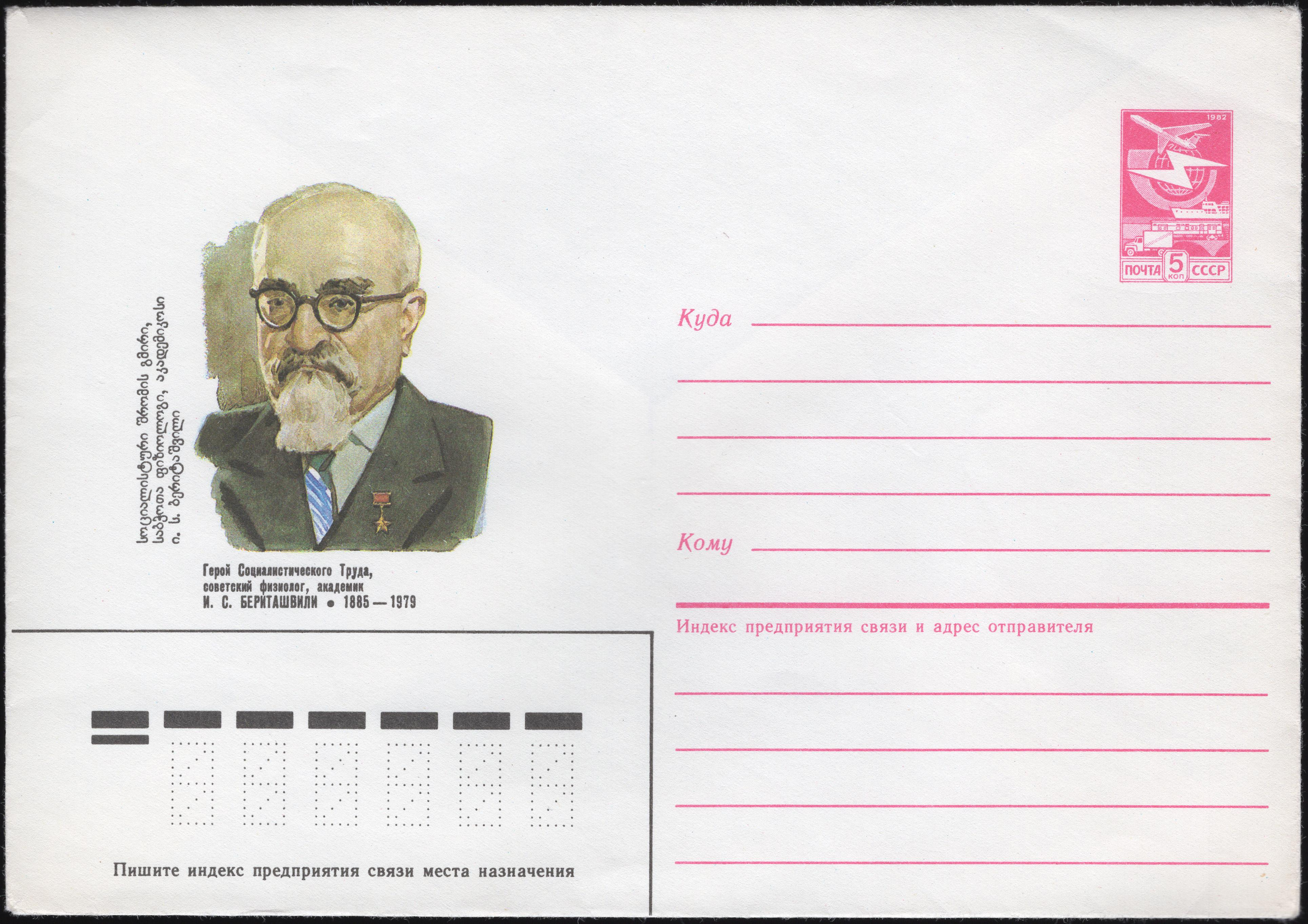 Hero of Socialist Labour sovetsky physiologist academician Ivan Solomonovich Beritashvili. 1885-1979. Series: Hero of Socialist Labour. Artist Samsonov A.